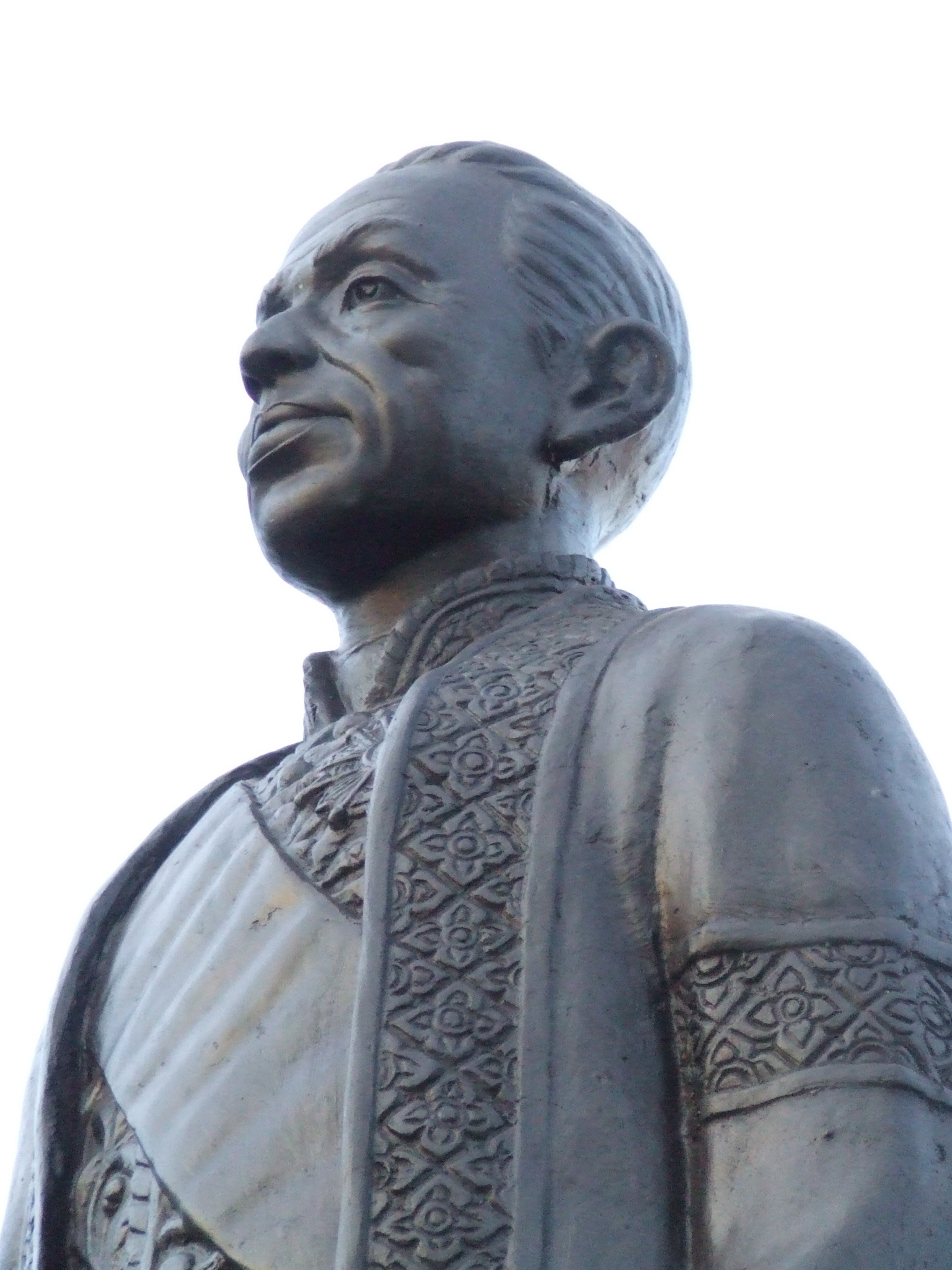 Monument of King Rama IV at the Faculty of Science, Khon Kaen University, Thailand. This picture is closed-up to his face.